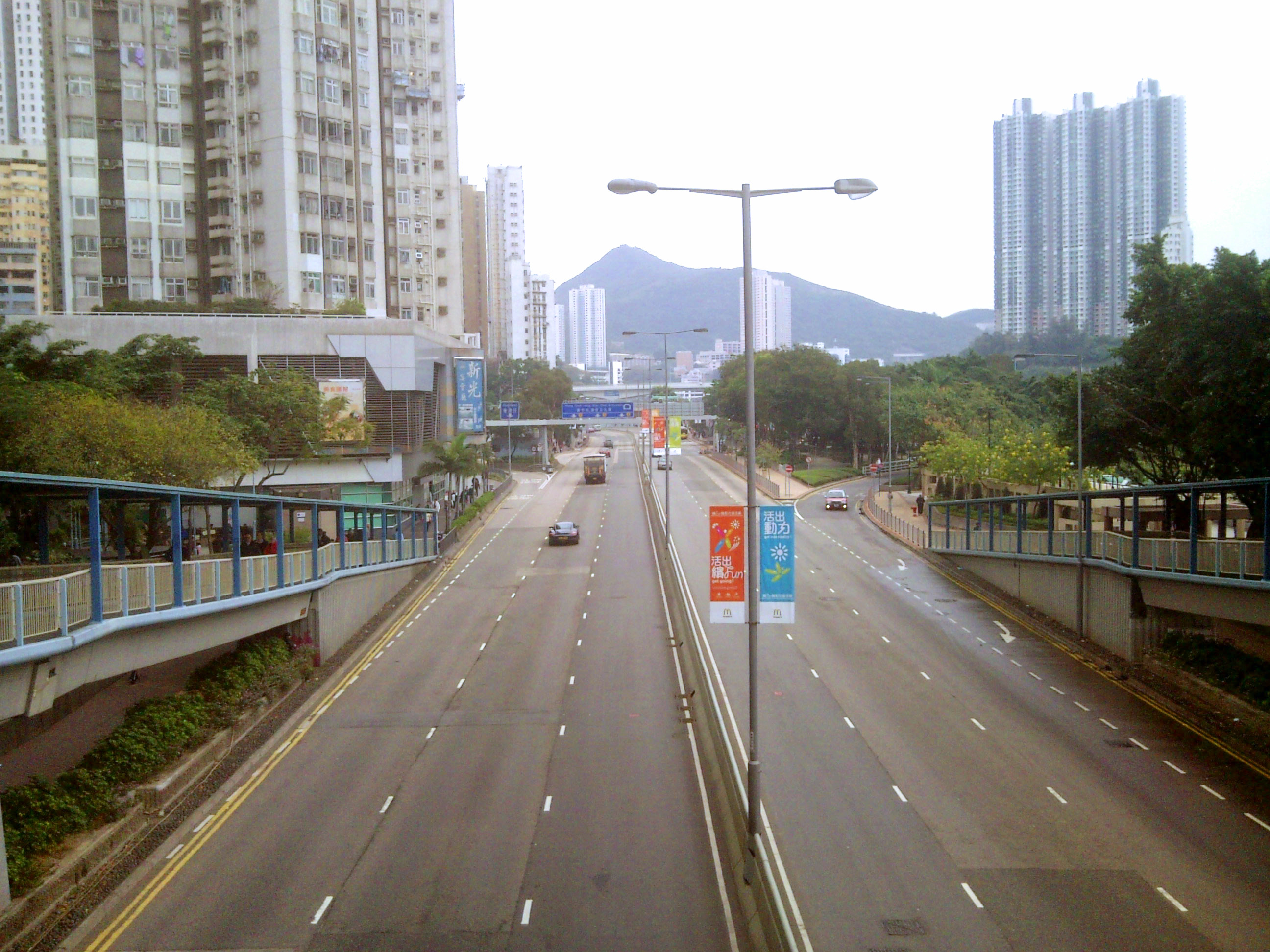 Aberdeen Praya Road near Aberdeen Centre